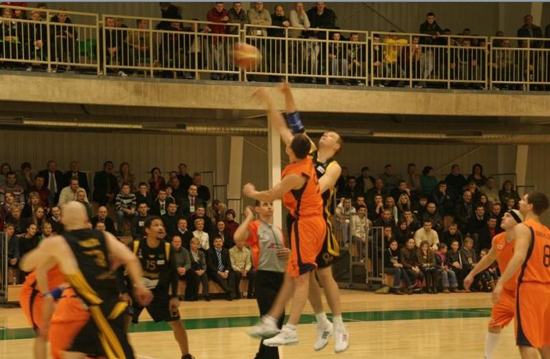 BC „Radviliškis“ playing against KK „Šiauliai“